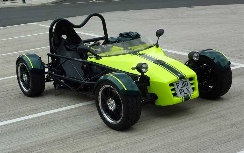 MEV Atomic kitcar front three-quarter view